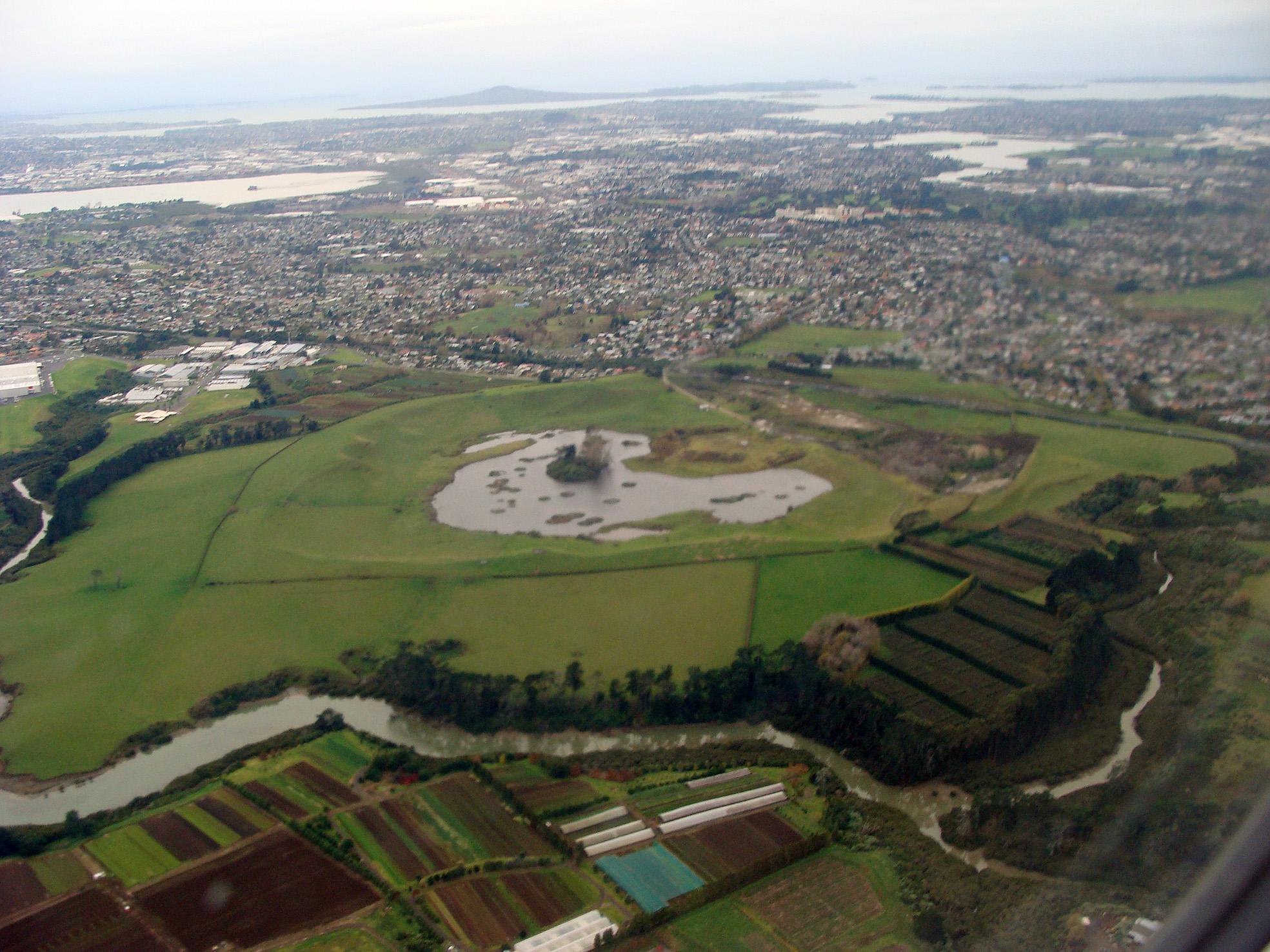 Volcanic crater in Auckland, New Zealand. location: -36.986546, 174.827135